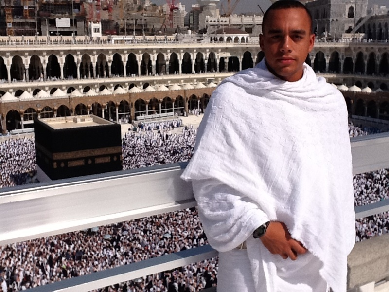 Lance Cpl. Michael S. Isabelle, a wireman with Communications Company, Combat Logistics Regiment 17, 1st Marine Logistics Group, visits the Kaaba, the most sacred site of Islamic faith.